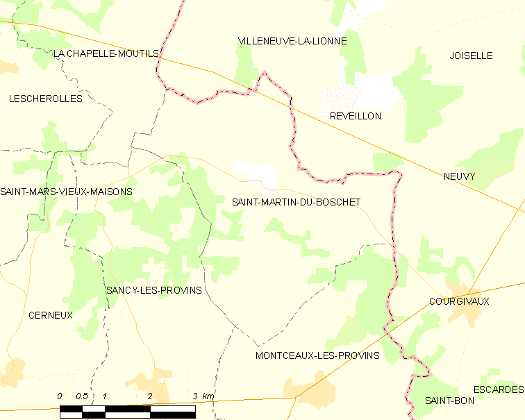 Map of French municipality Saint-Martin-du-Boschet